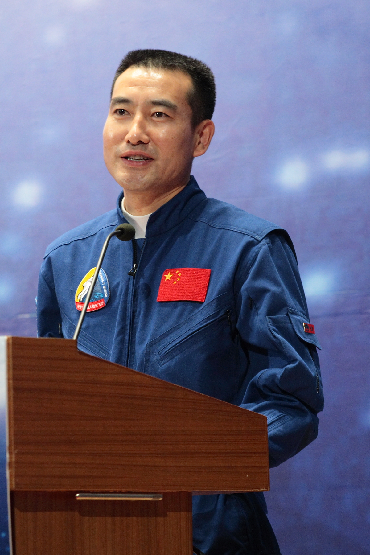 China astronaut Zhai Zhigang. Taken at the Chinese University of Hong Kong, 6th Dec 2008